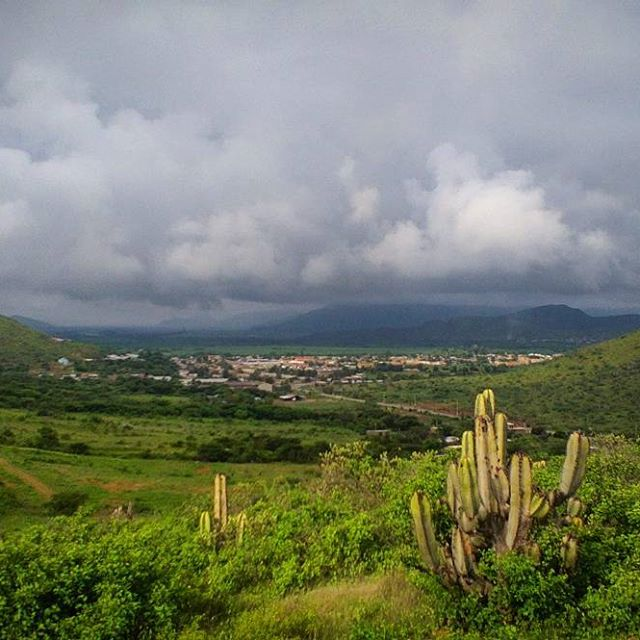 Vista do Distrito de Chongoyape